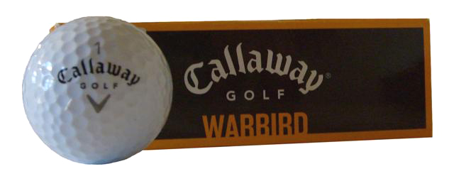 A Callaway Warbird golf ball in front of the package